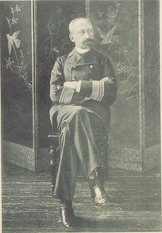 Photograph taken in Beijing by the then German ambassador Alfons von Mumm during the Boxer Rebellion.